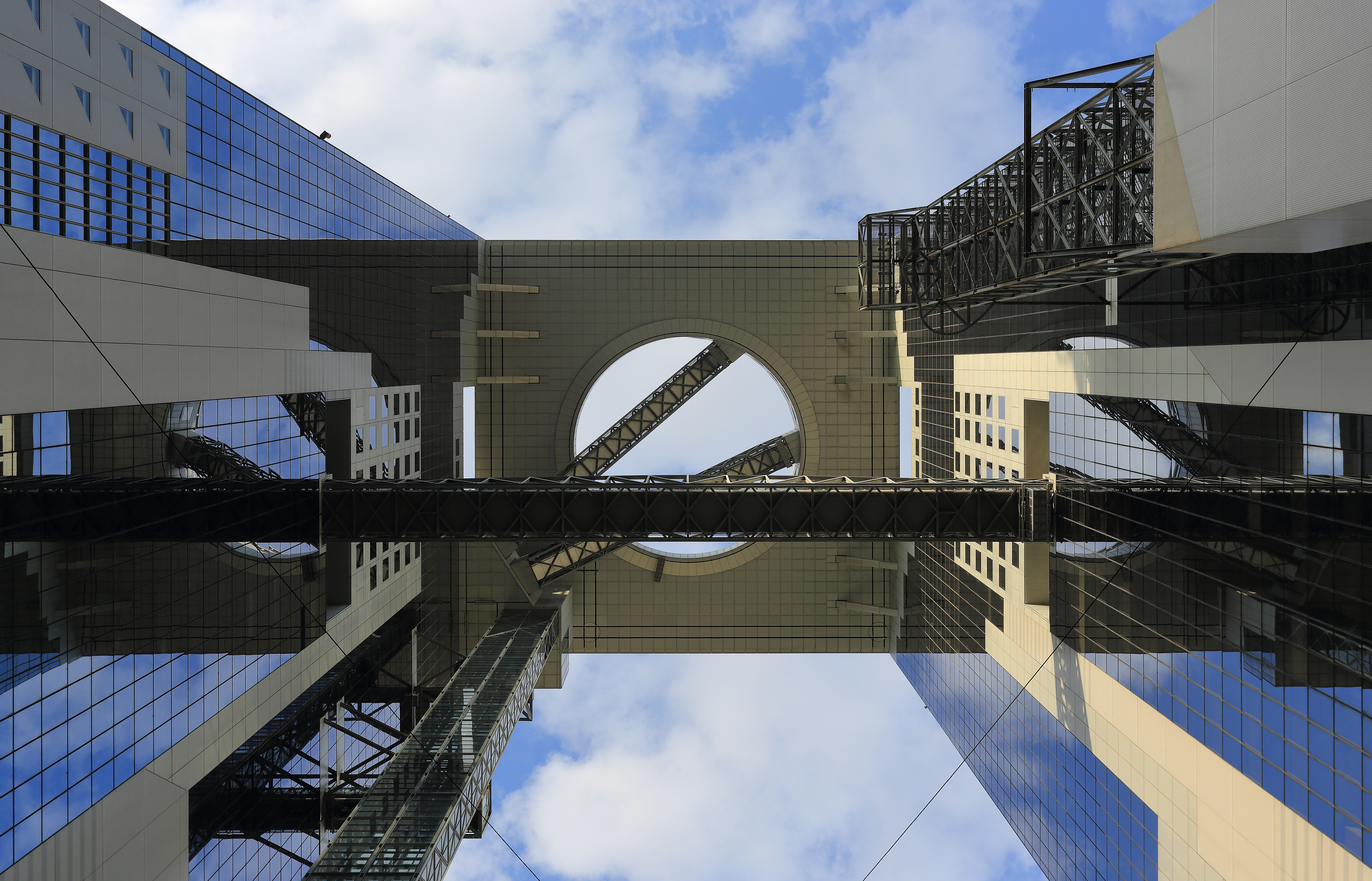 Umeda Sky Building, designed by Hiroshi Hara and completed in 1993, is the nineteenth-tallest building in Osaka Prefecture, Japan, and one of the city's most recognizable landmarks. It consists of two 40-story towers (173m) that connect at their two uppermost stories, with bridges and an escalator crossing the wide atrium-like space in the center.